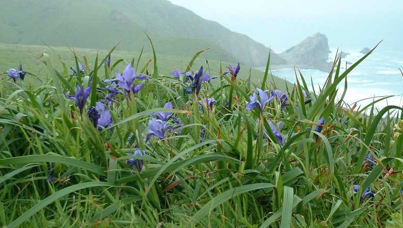 Iris douglasiana — Douglas Iris. Colony of the native iris on Tomales Point, Point Reyes National Seashore, Marin County, California. Photograph taken 3rd April 2004 by Stephen Lea This reduced image placed in the public domain 9th April 2004.